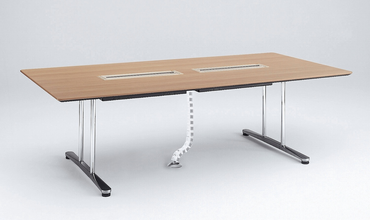 Works of KAWAKAMI Motomi 012-1999